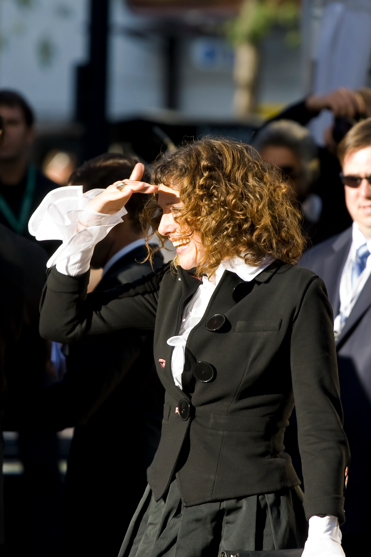 Rebecca Miller, filmmaker and spouse of acclaimed actor Daniel Day-Lewis, arrives at the premiere of her new film, "The Private Lives of Pippa Lee", during the Toronto International Film Festival, 2009.